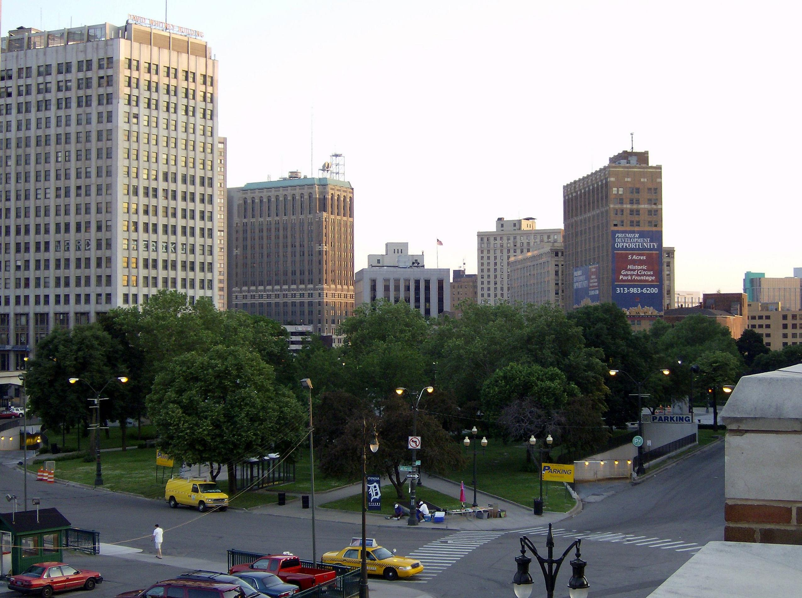 Grand Circus Park — on Woodward Avenue in downtown Detroit, Michigan. In backround a view of some of the contributing properties to the Grand Circus Park Historic District.